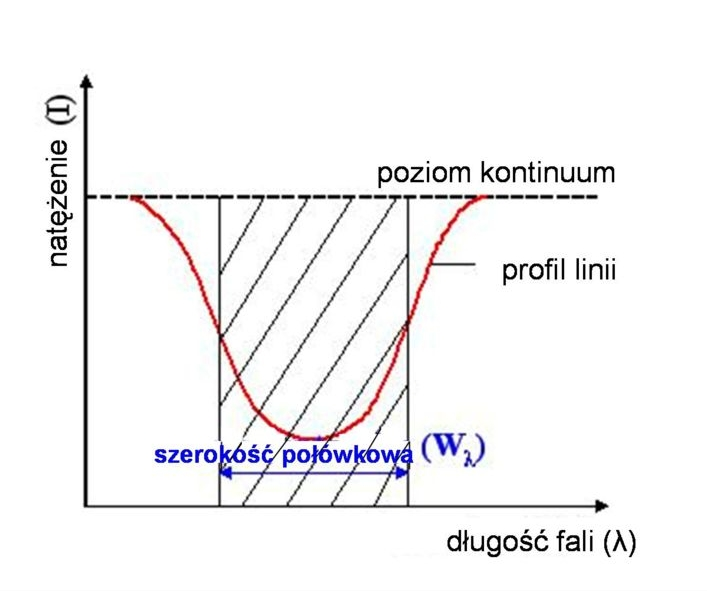 Created by Dorottya Szam Translated into polish by Arwenaa definition of equivalent width